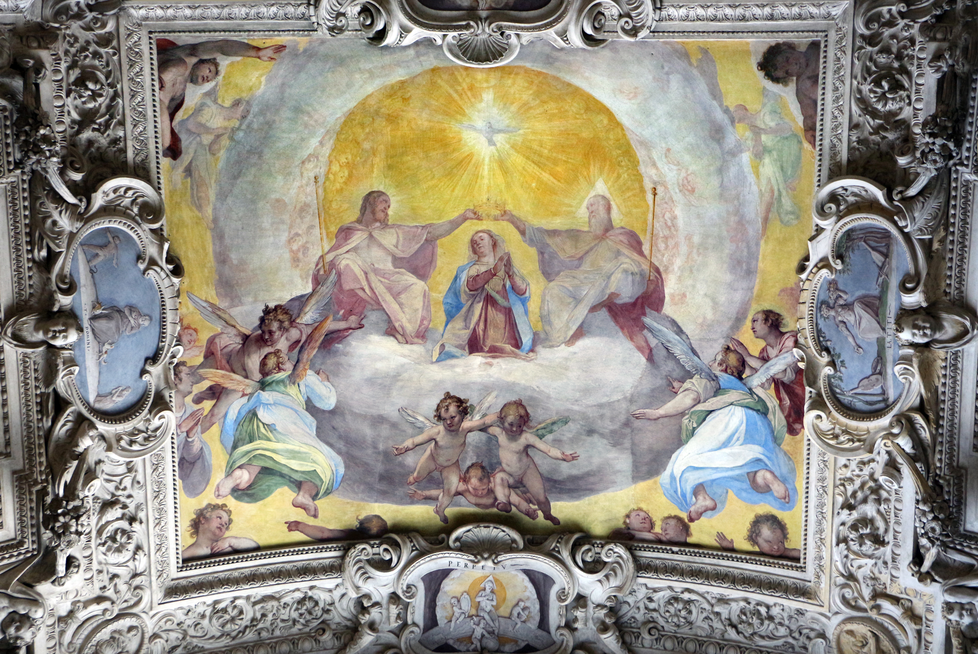 Santuario della Santa Casa (Loreto) - Frescos by Federico Zuccari